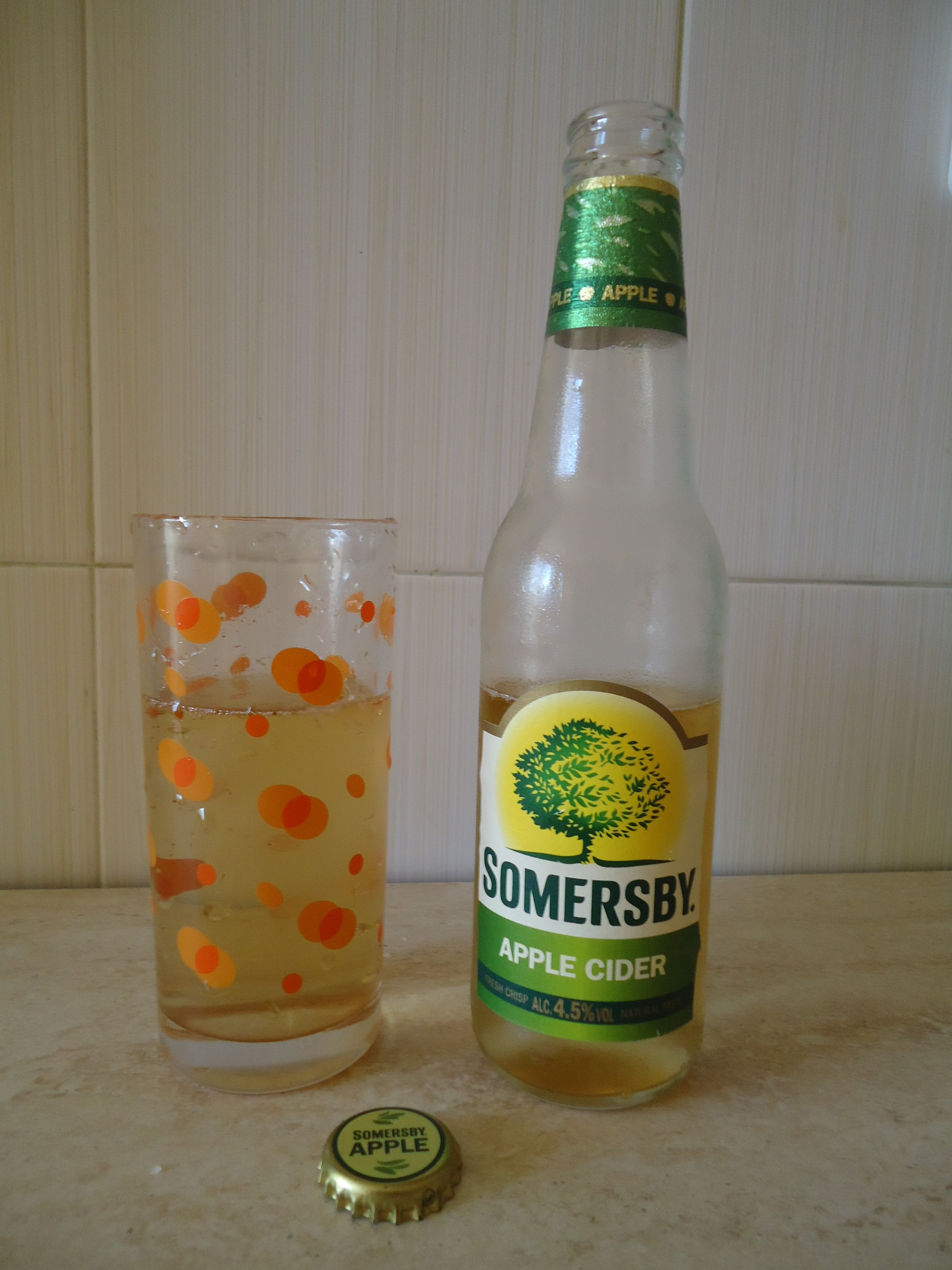 Somersby Cider